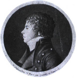 Georg Joachim Grodtschilling (1785-1812), Danish naval officer